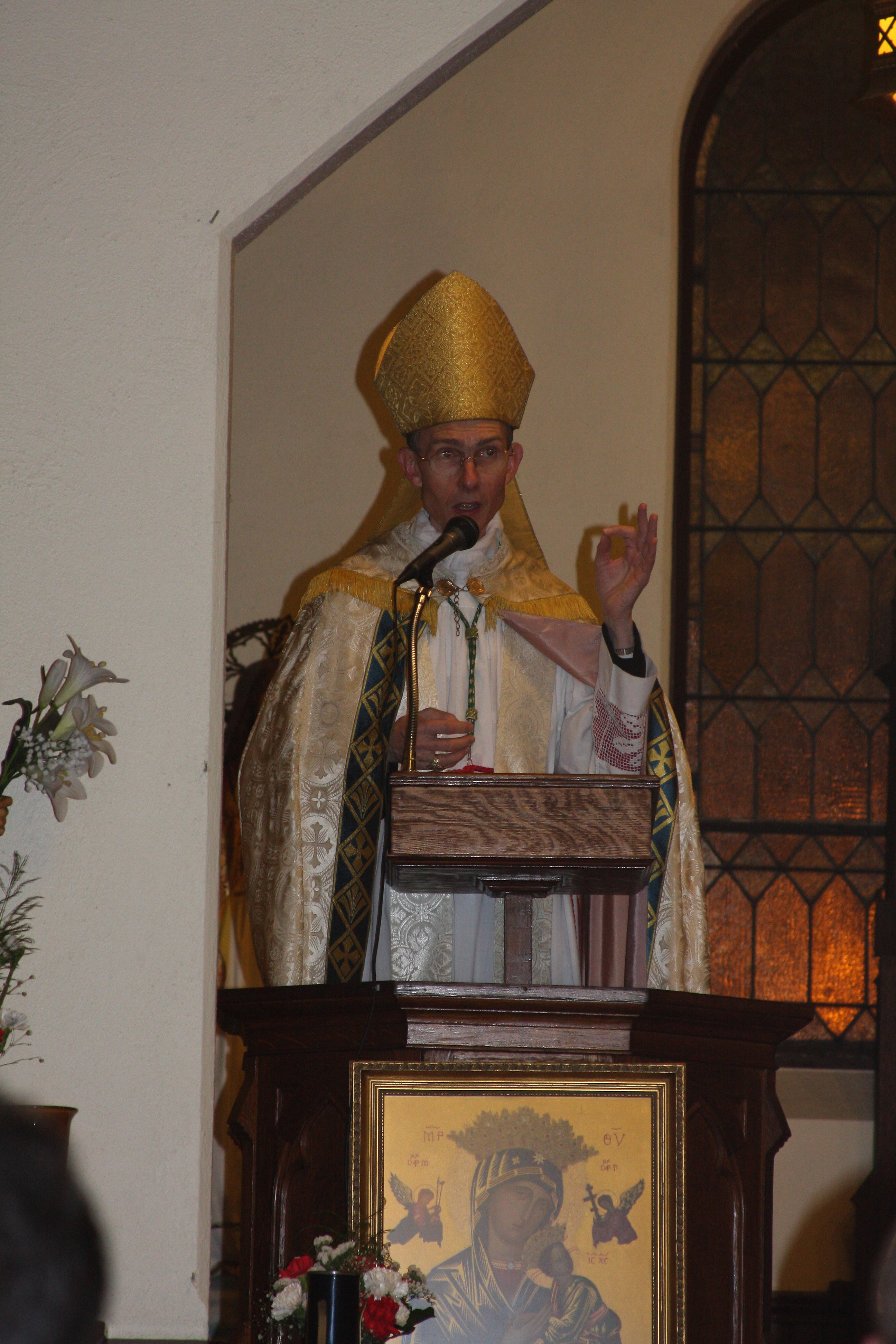 H.E. Bishop Bernard Tissier de Mallerais, Confirmation at St. Jude Roman Catholic Church, March 4, 2008